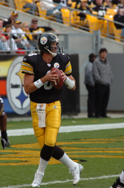 Tommy Maddox of the Pittsburgh Steelers drops back to pass - October 16, 2005